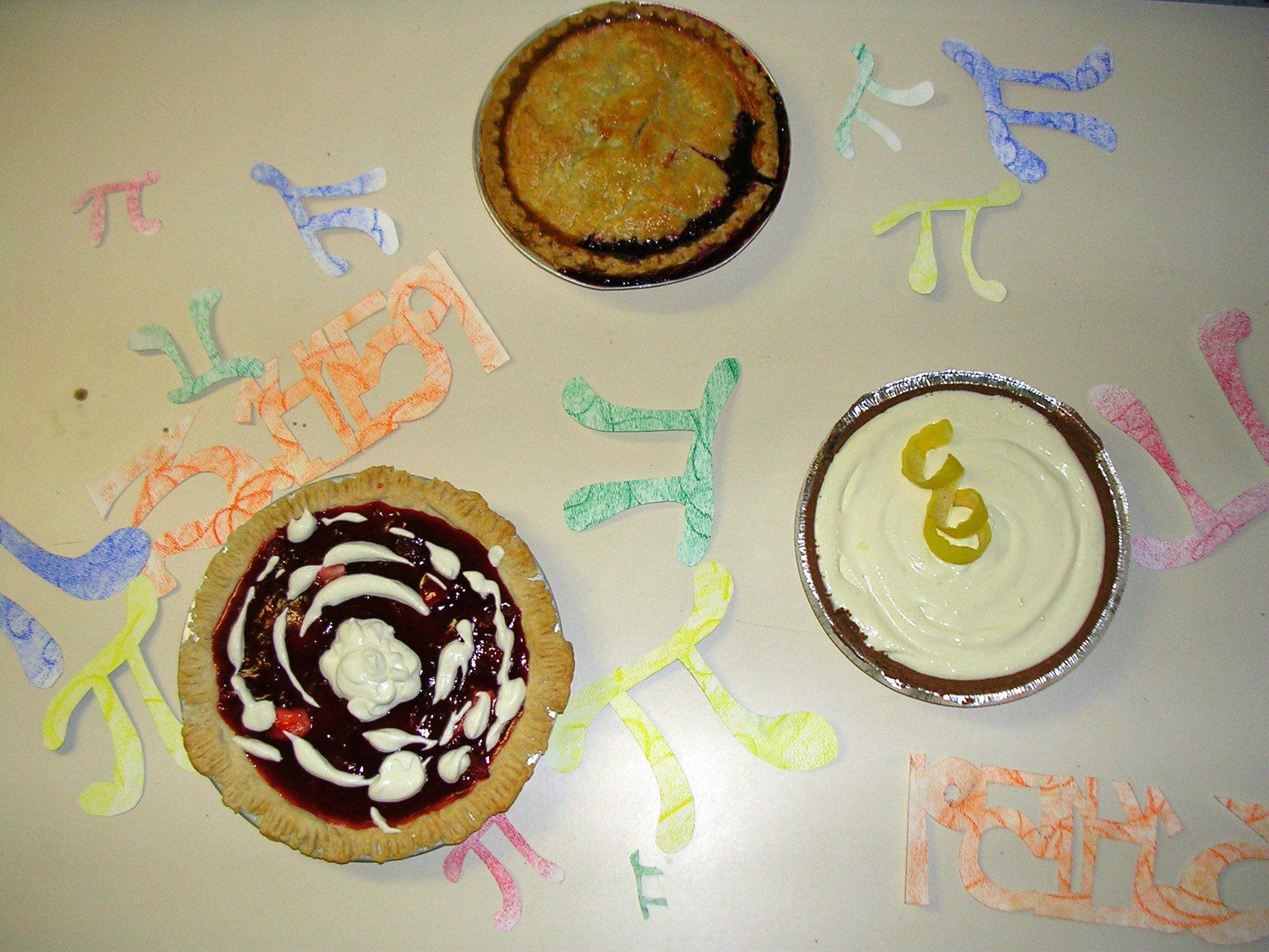 Pies for a "Pi Day" celebration at the Massachusetts Institute of Technology